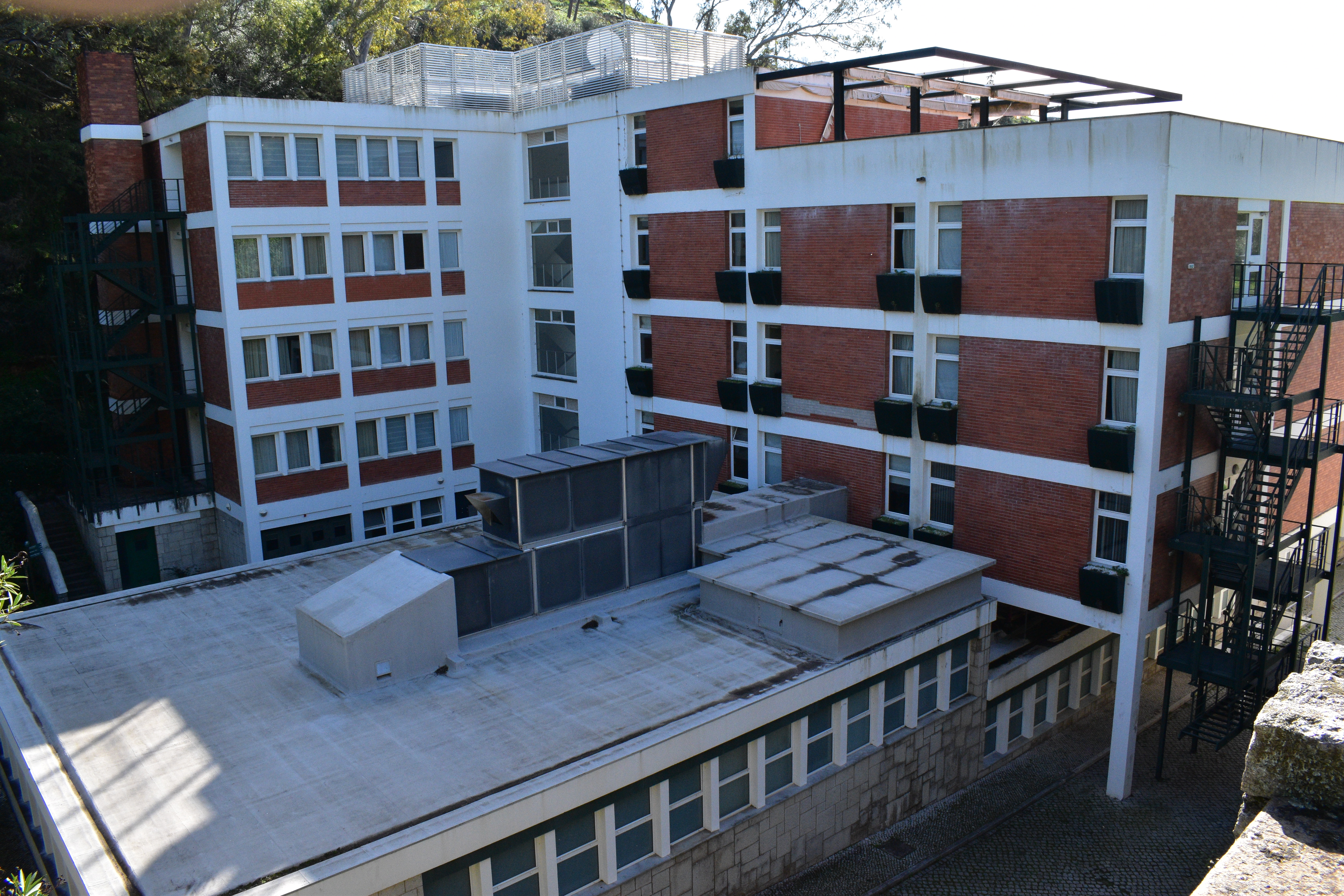 Thermal hotel, part of the Monchique Spa, in Southern Portugal.